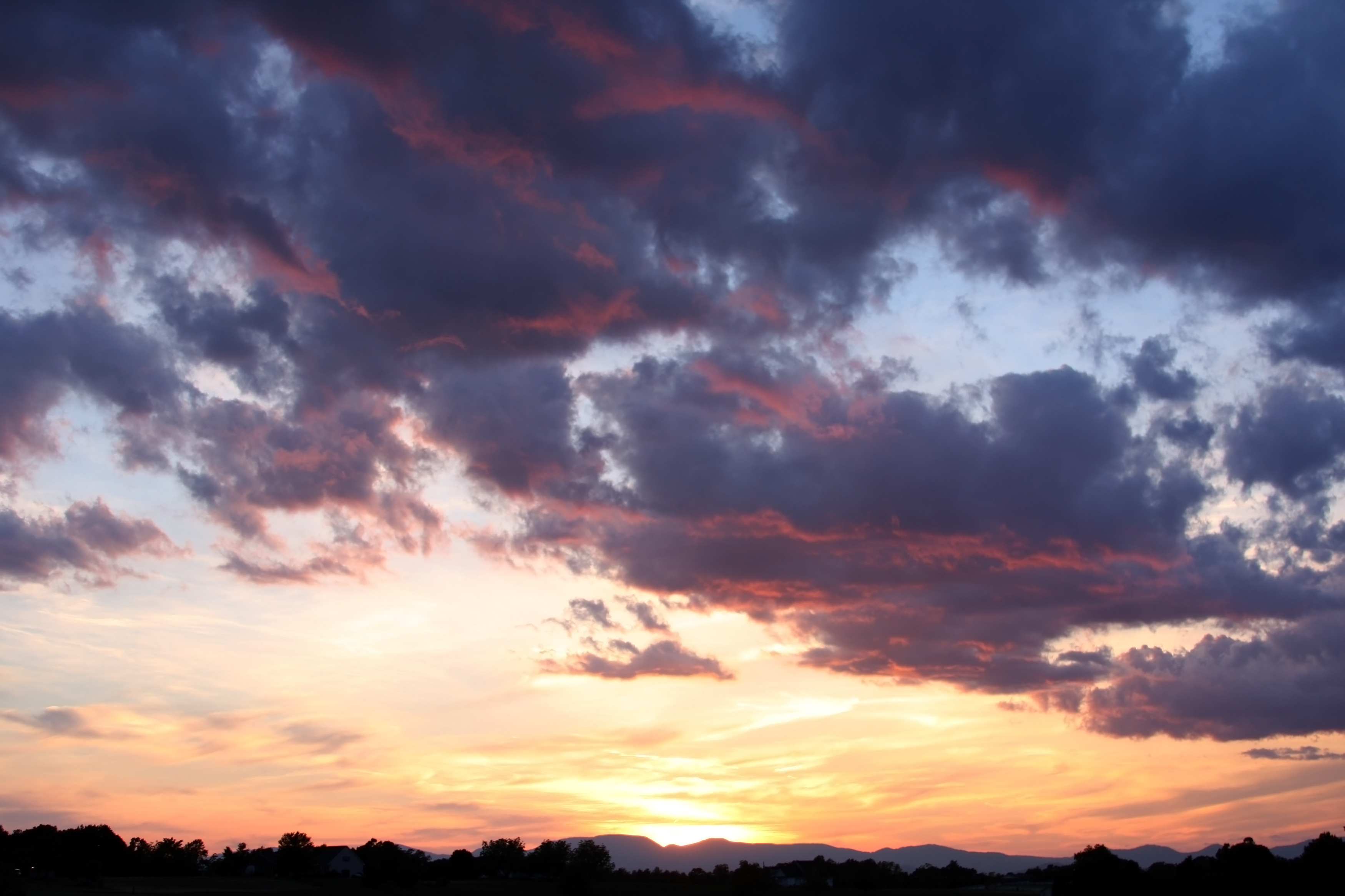 Sunset overlooking North Carolina on I-26 near Hendersonville